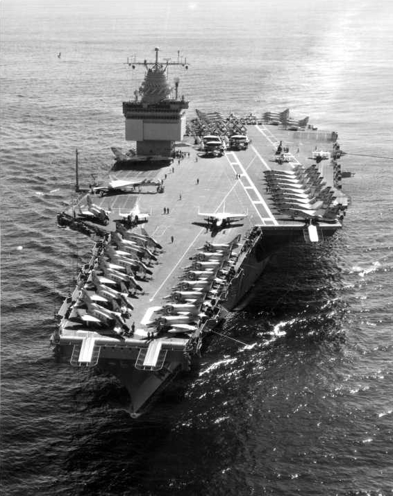 The U.S. Navy aircraft carrier USS Enterprise (CVAN-65) underway on 1 October 1962, with aircraft of Carrier Air Group 6 (CVG-6) spotted on the flight deck.